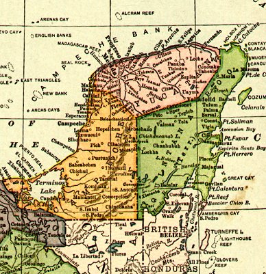 Map of the Yucatán, from 1917 Hammond's Atlas of the Modern World